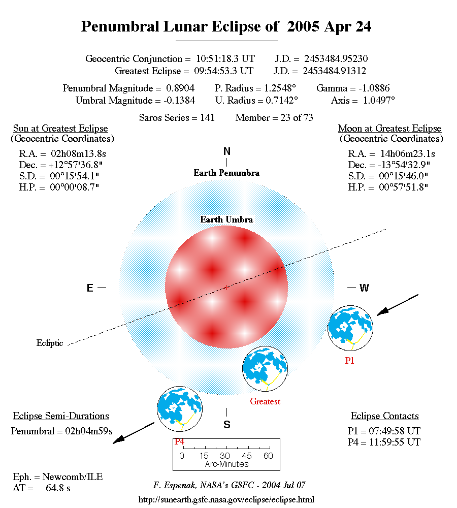 Sketch of the 2005-04-24 lunar eclipse.